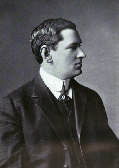 James Michael Curley in his second term as Mayor of Boston, in 1922. James Michael Curley (November 20, 1874 – November 12, 1958)